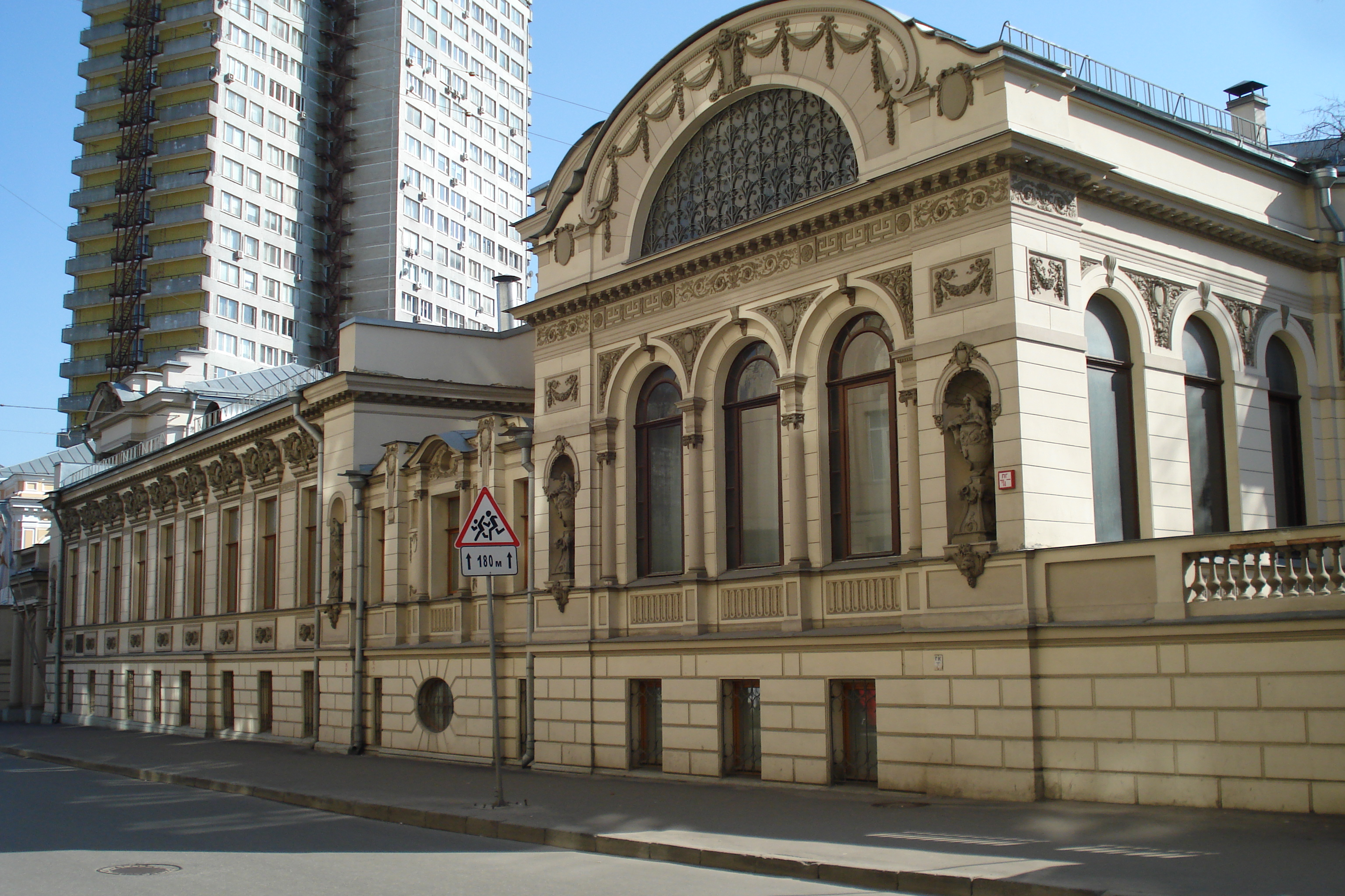 9 Povarskaya Street, Moscow by I.S.Kuznetsov (Embassy of Cyprus). Architect Ivan Kuznetsov. Main facade (general view)